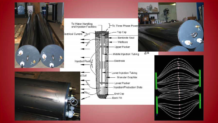 The ET-DSP™ electrode